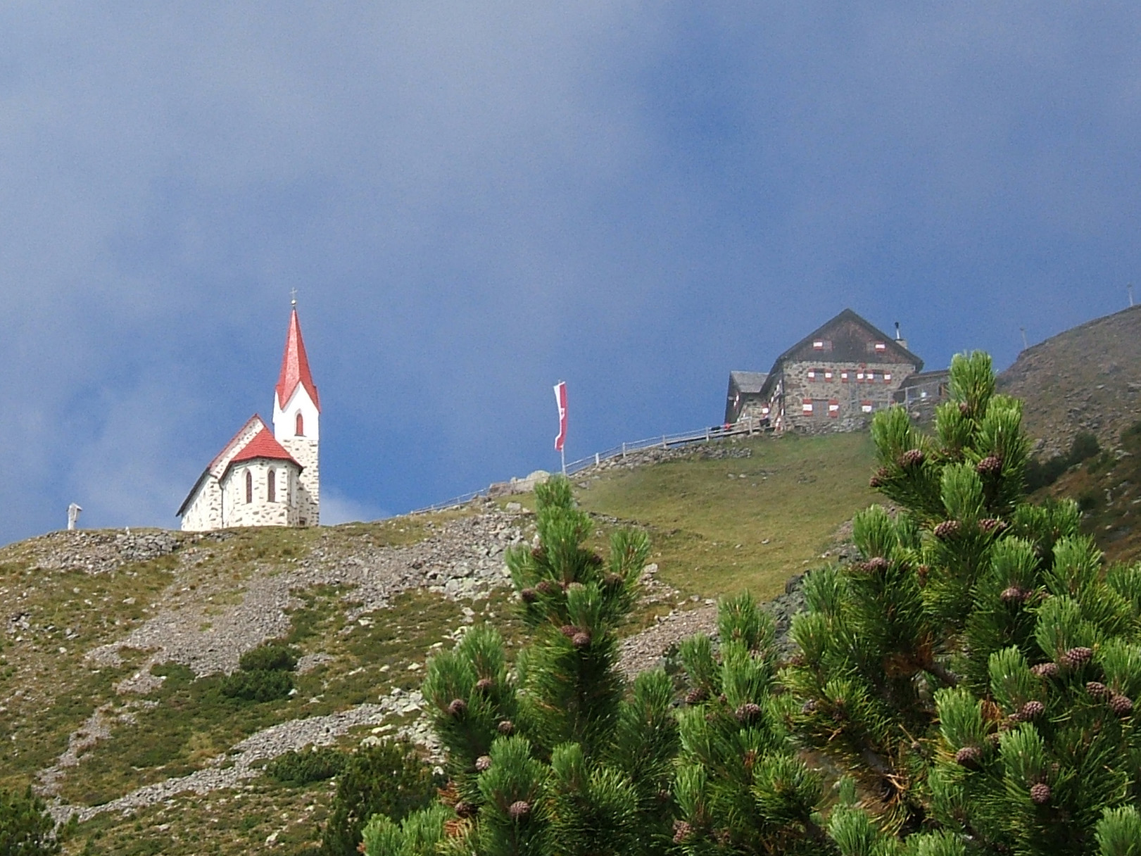 Pilgrimage church and refuge at Latzfonser Kreuz, Sarntaler Alpen, Südtirol